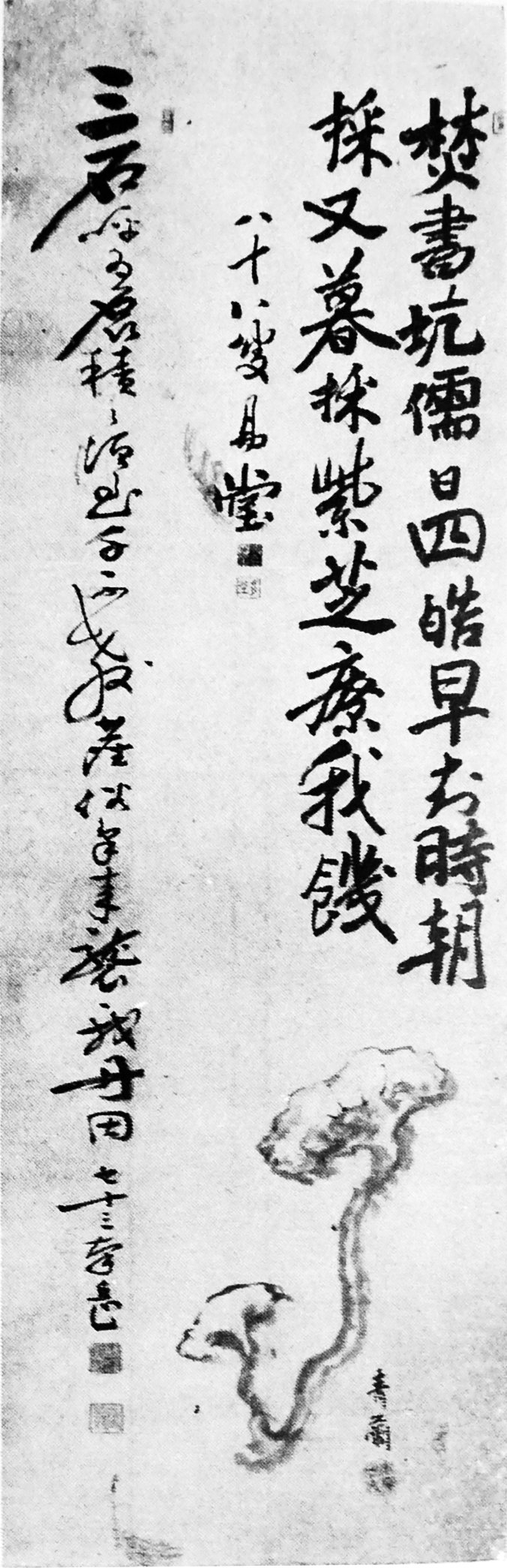 Calligraphy and painting of Teranishi Ekido(1826-1916), Fujisawa Nangaku(1842-1920), Kawabe Seiran(1868-1931)